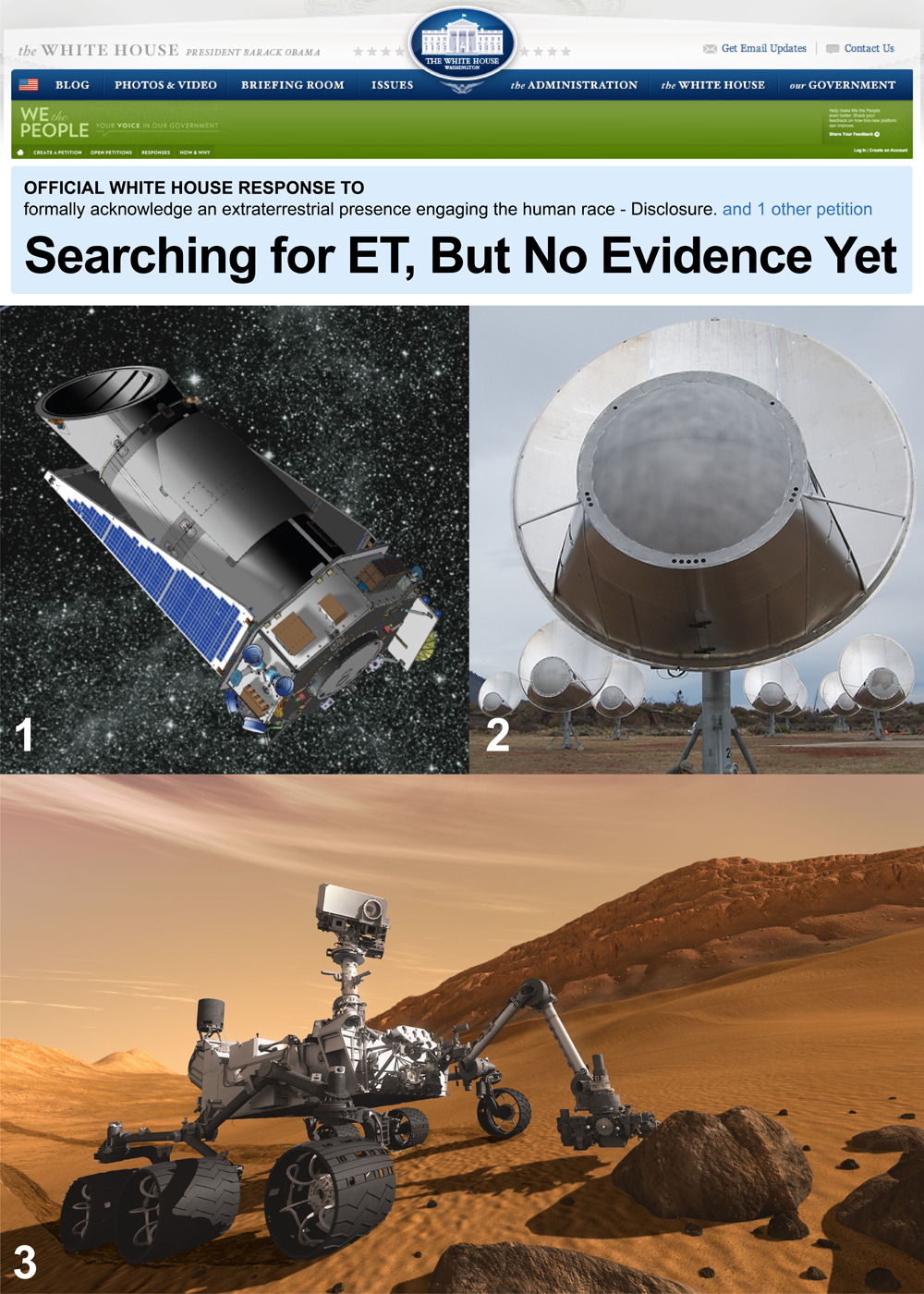 Visual summary of White House position on extraterrestrials: no evidence yet, search being conducted by 1. looking for extrasolar planets (Kepler mission) 2. listening for signals (SETI, illustrated by Allen array) 3. robotic exploration of the Solar System (illustrated by Curiosity mars rover)